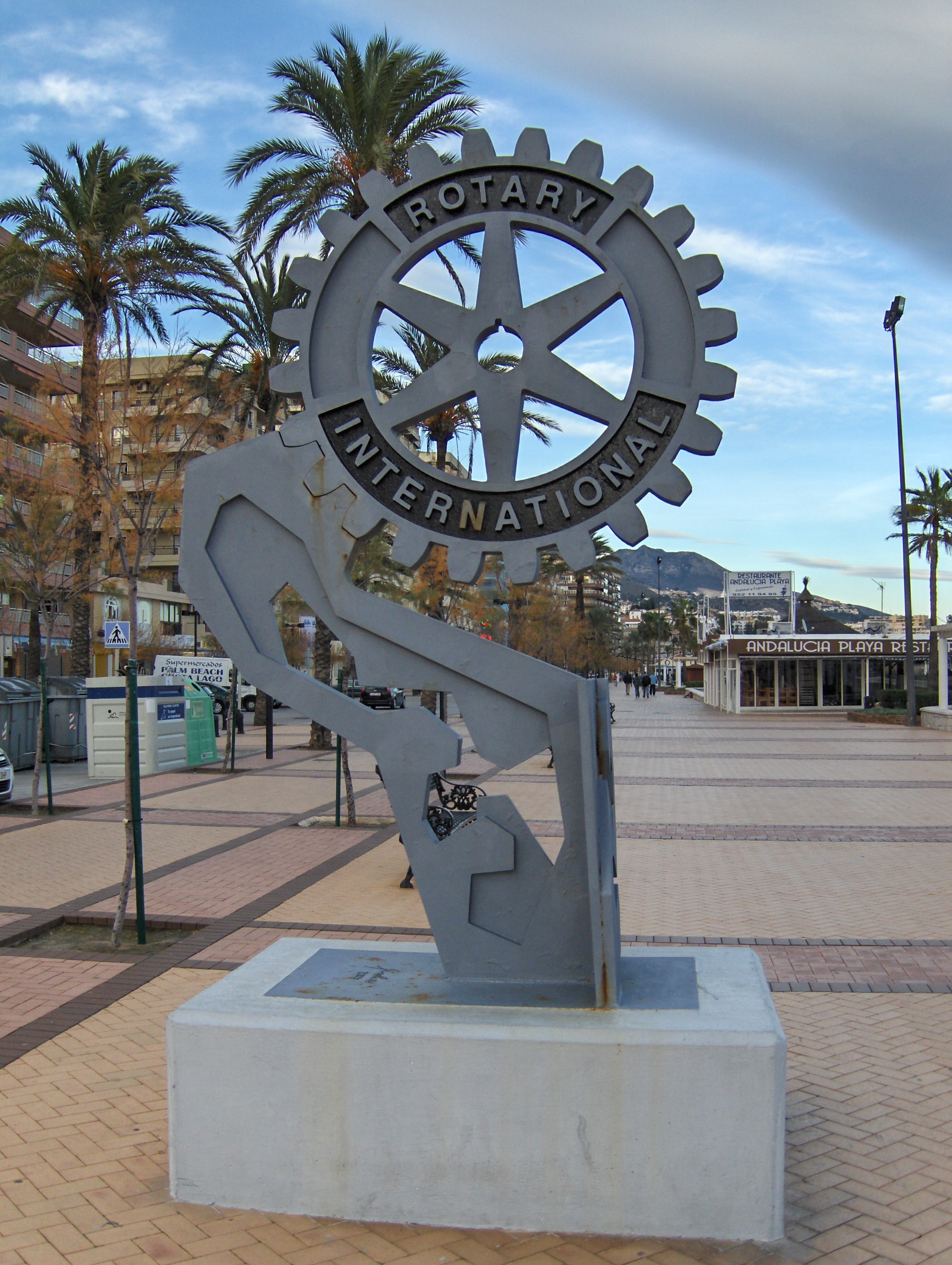 Sculpture Rotary International, Fuengirola